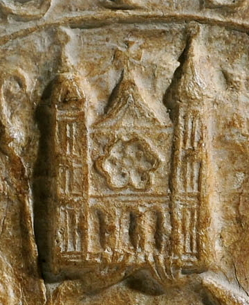 Seal of the city of Bremen as used from 1230 to 1365. The subject, Charlemagne and bishop Wilhad with the cathedral between them, serves the oldest depiction of Bremen Cathedral. Below, i.e. in front of the cathedral, there is a town wall with pinnacles and an open bar.